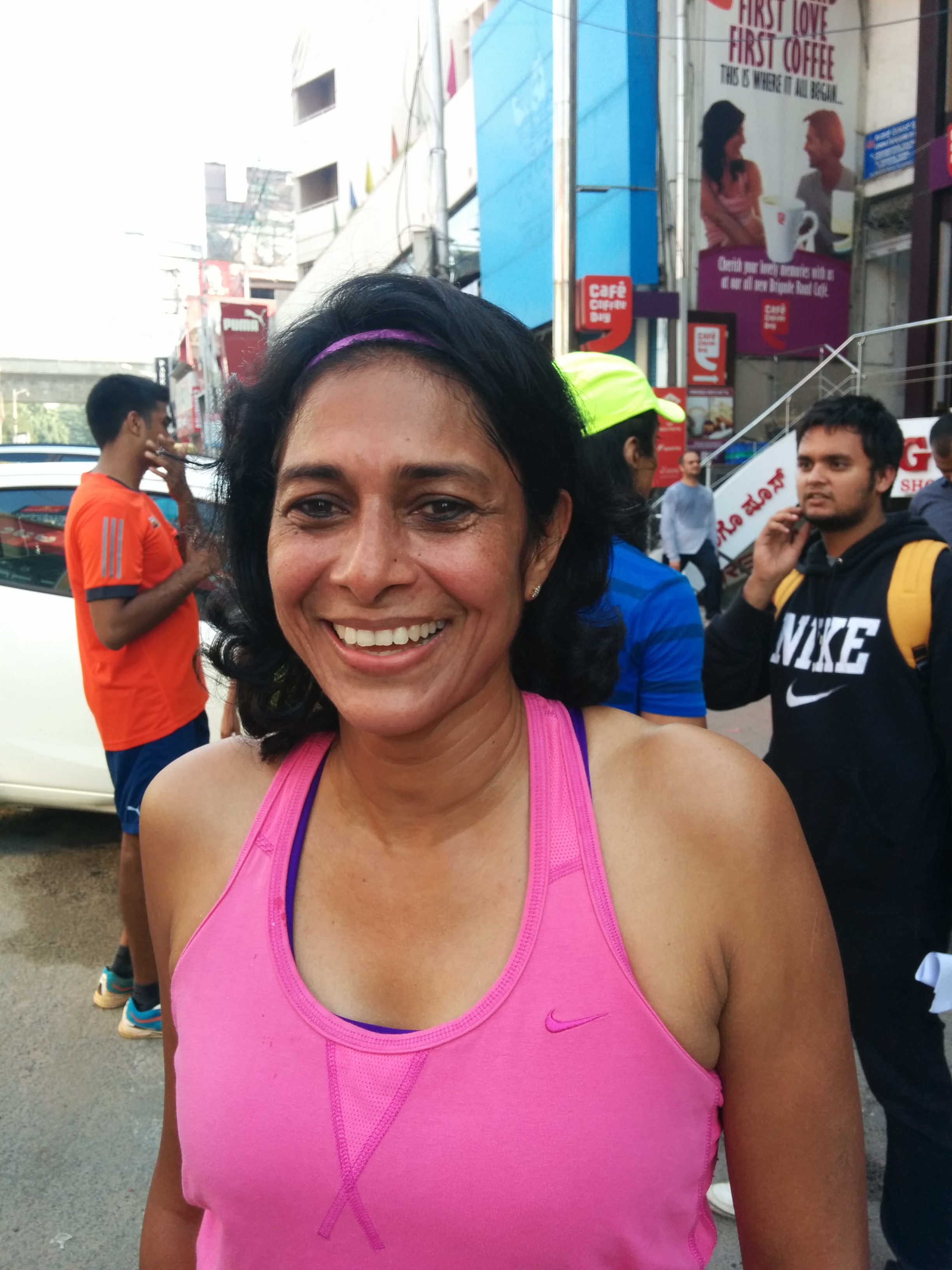 Reeth Abraham at the 10k run with Raj Vadagama @ Bangalore